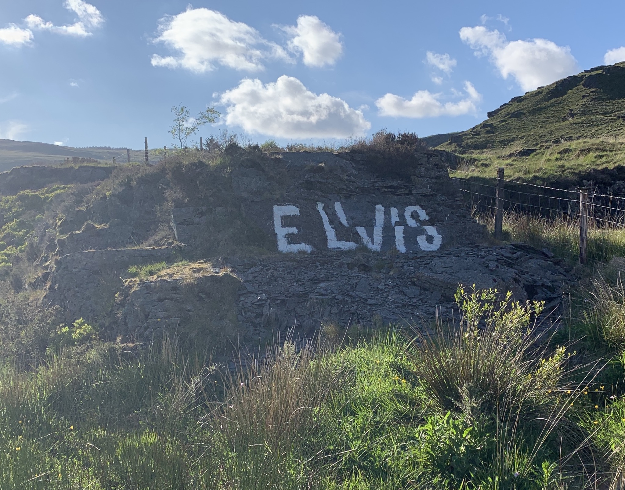 The famous “Elvis Rock” in Powys, mid-Wales.